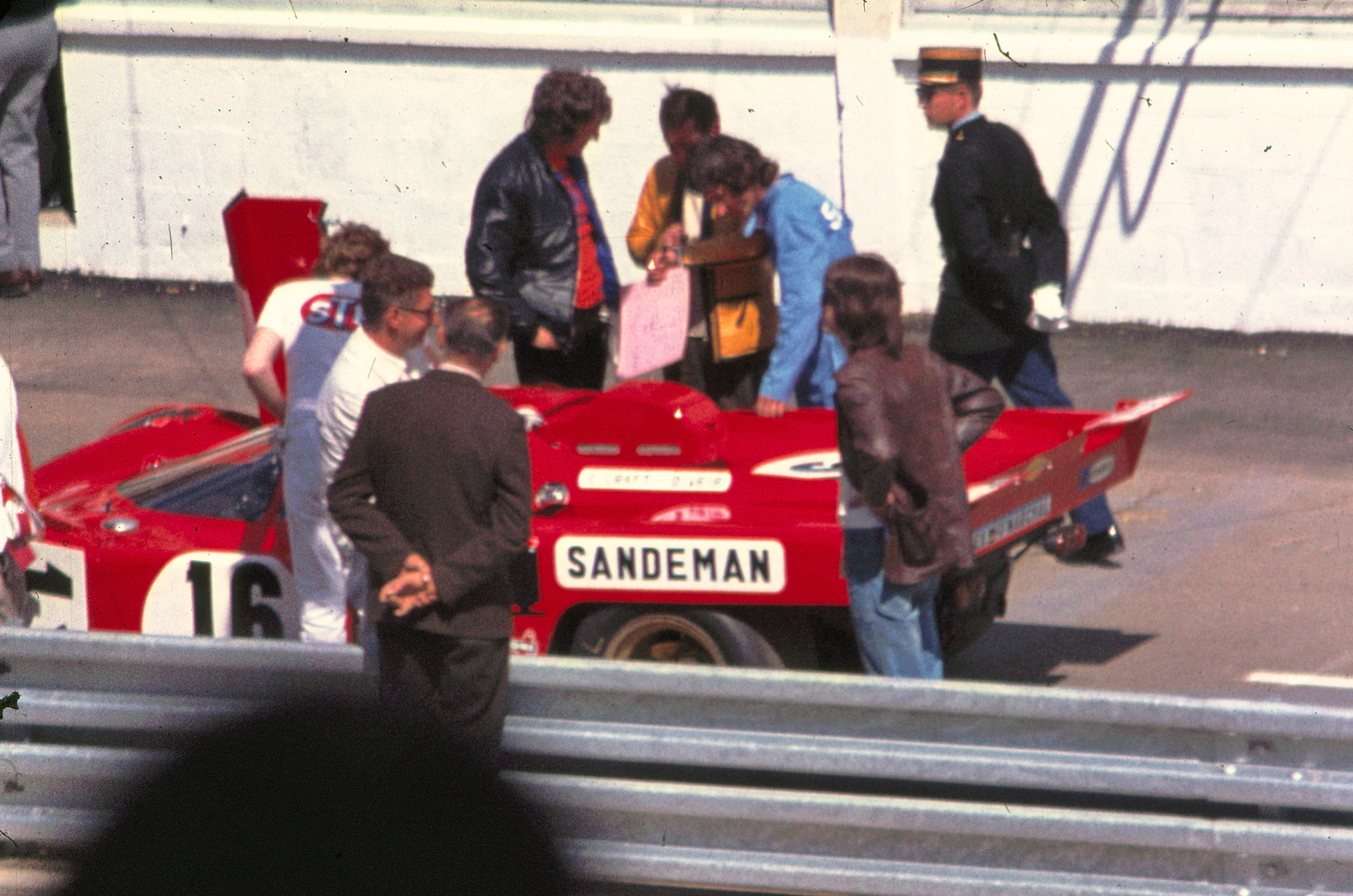 Ferrari 512 M N°16 David Piper Autorace Technique : Catégorie : Sport Moteur : V12 Ferrari 4993 cm3 Pneus : Goodyear Pilotes : David Weir Chris Craft